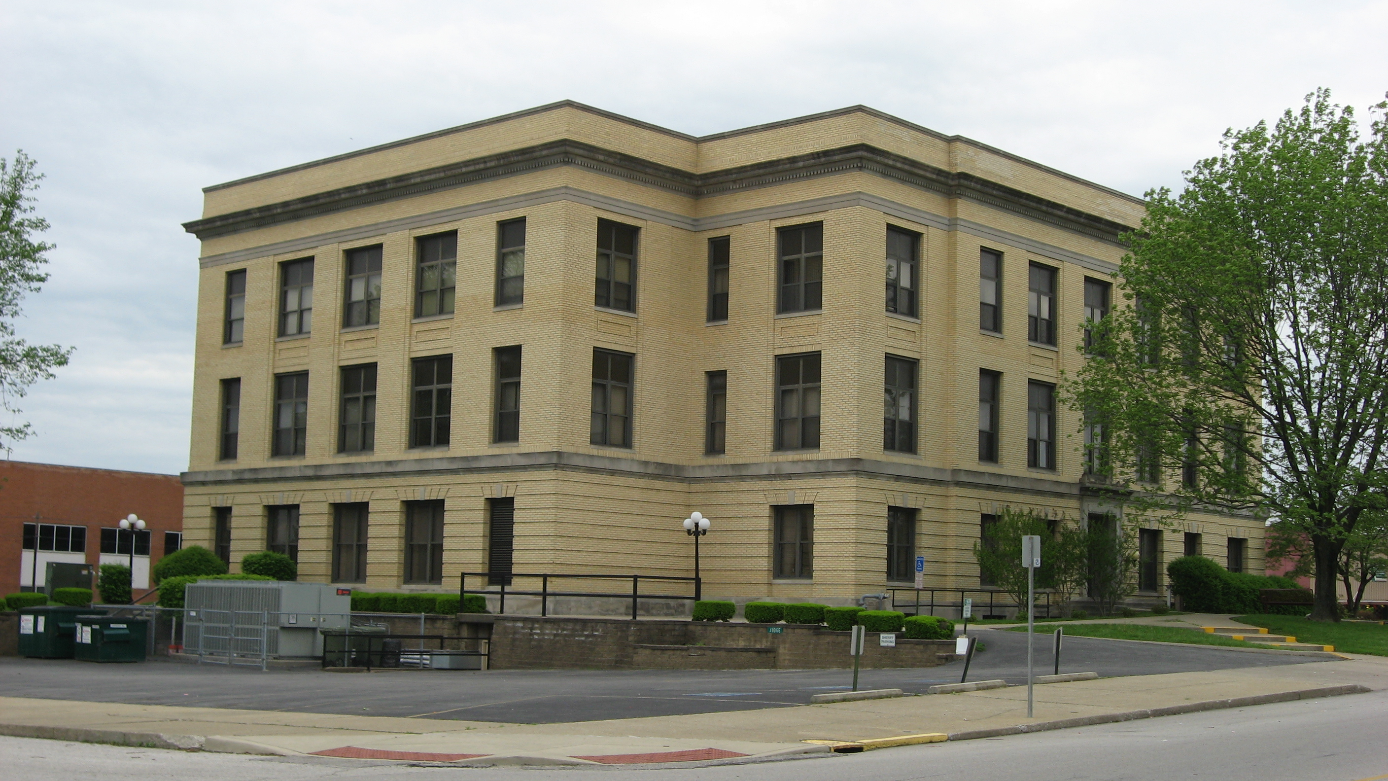 Southeastern (left) and northeastern (right) sides of the Pike County Courthouse, located in the central square of Petersburg, Indiana, United States. Built in 1922, it is listed on the National Register of Historic Places.